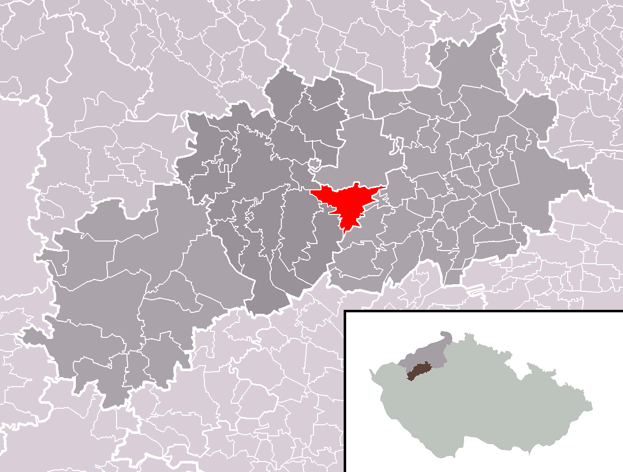 Location of Lipno municipality within Louny District and administrative area of Žatec as a Municipality with Extended Competence.